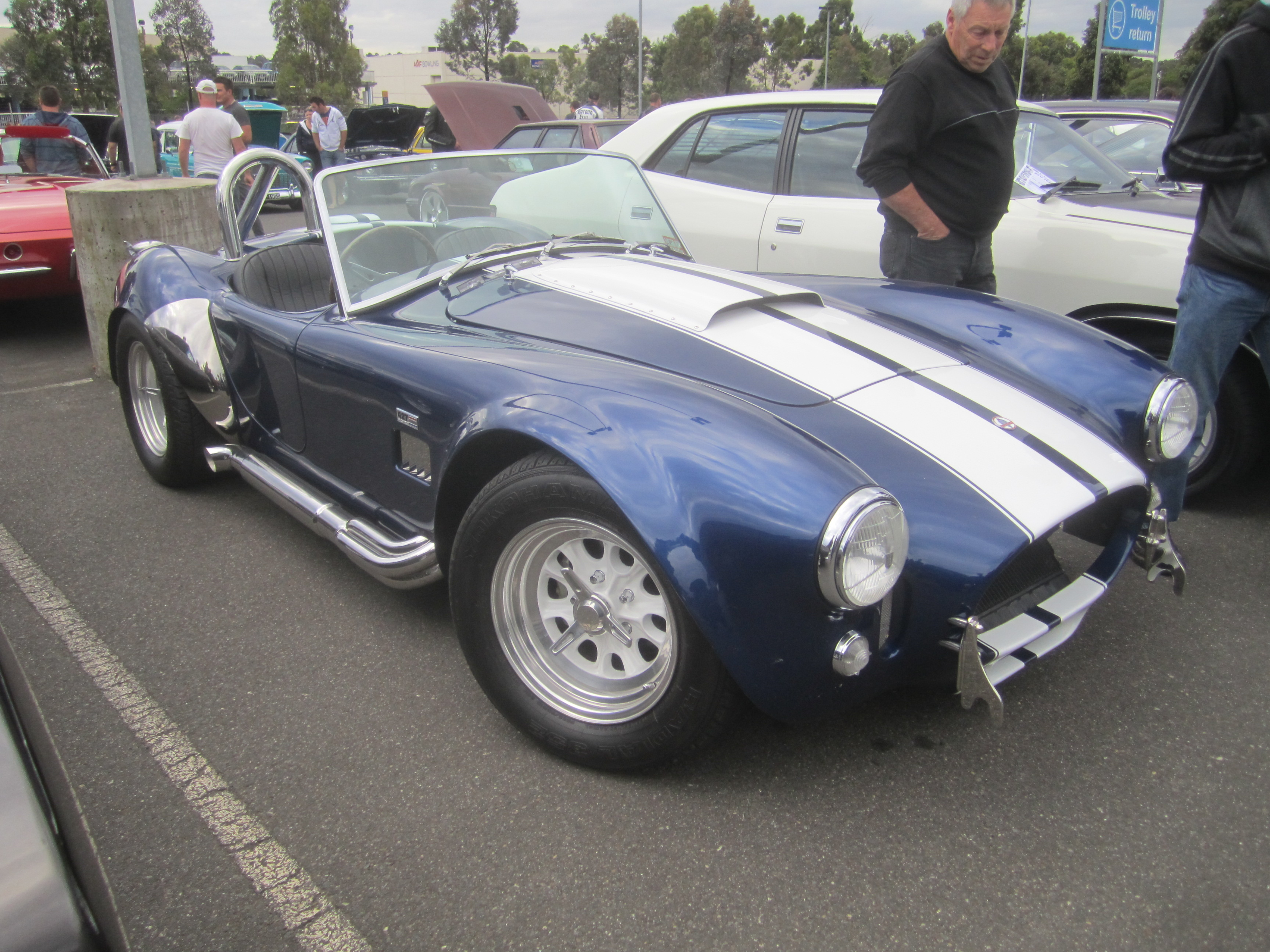 An American-engined British sports car Maybe a replica, but a nice example. AC started in 1953 with the 6 cyl Ace. 1961; started using the Zephyr 6. 1962; AC approached Carroll Shelby to supply engines, hence the 260 cu in AC Cobra MkI. 1963; Now 289 and rack and pinion steering. 1965-67; The big block 427. Many companys world wide have been making relicas of this popular Roadster ever since.